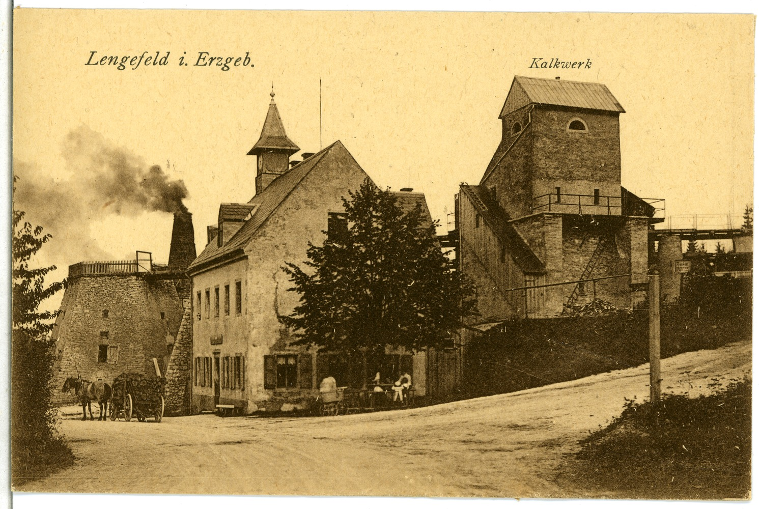 This postcard is from publisher Brück & Sohn in Meißen ( This postcard has a unique number 06945 and is available in a higher resolution at the publisher. This images was uploaded in a cooperation project between Wikipedians and the publisher.